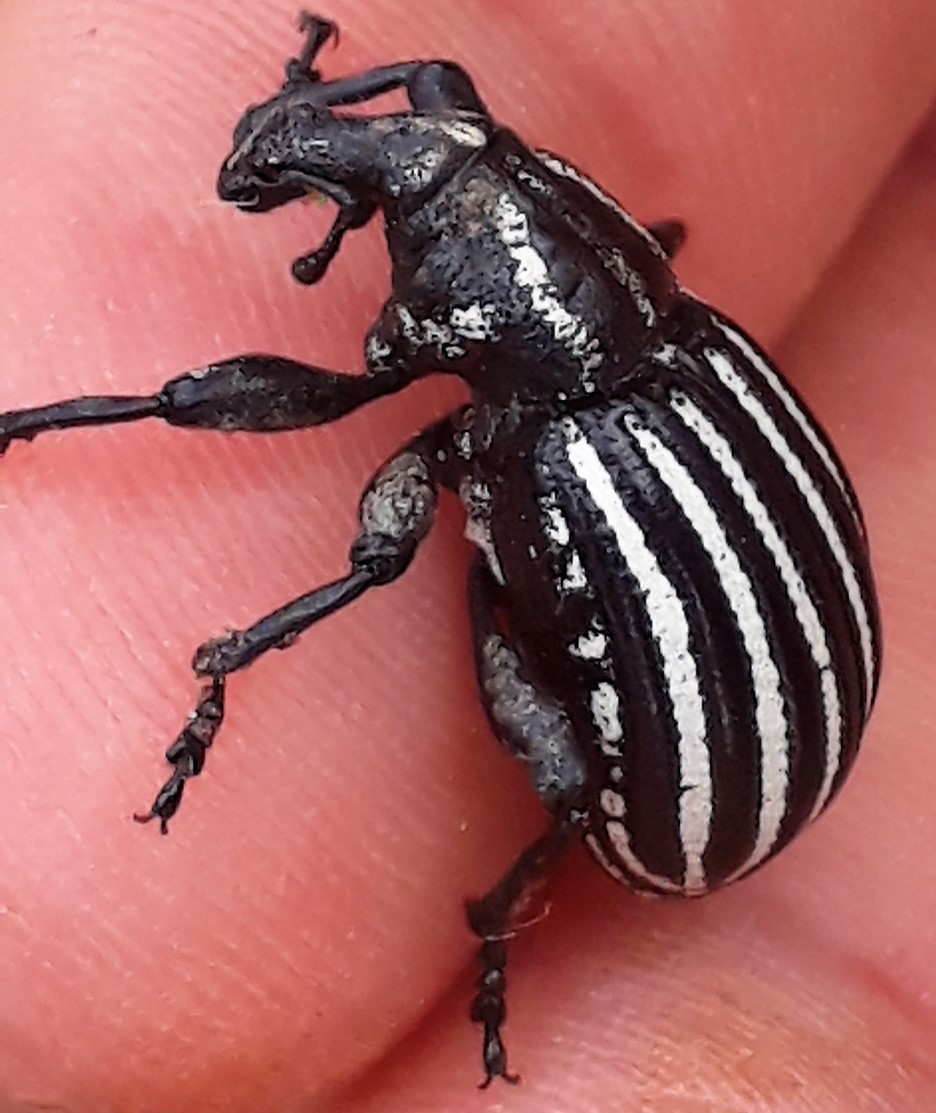 This weevil browses on speargrass leaves and flowers in the alpine environment. It is flightless.